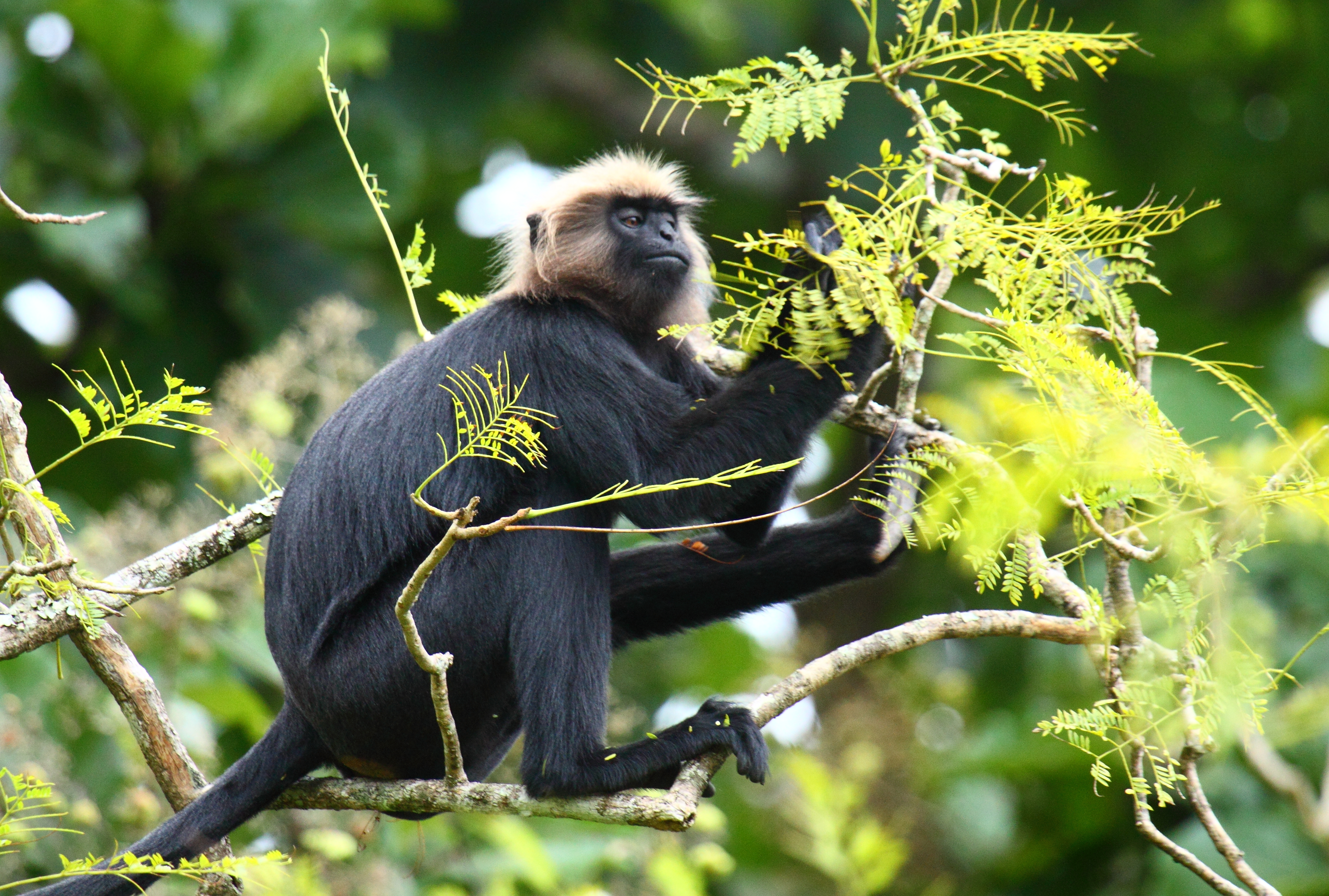 Nilgiri langur (Trachypithecus johnii).